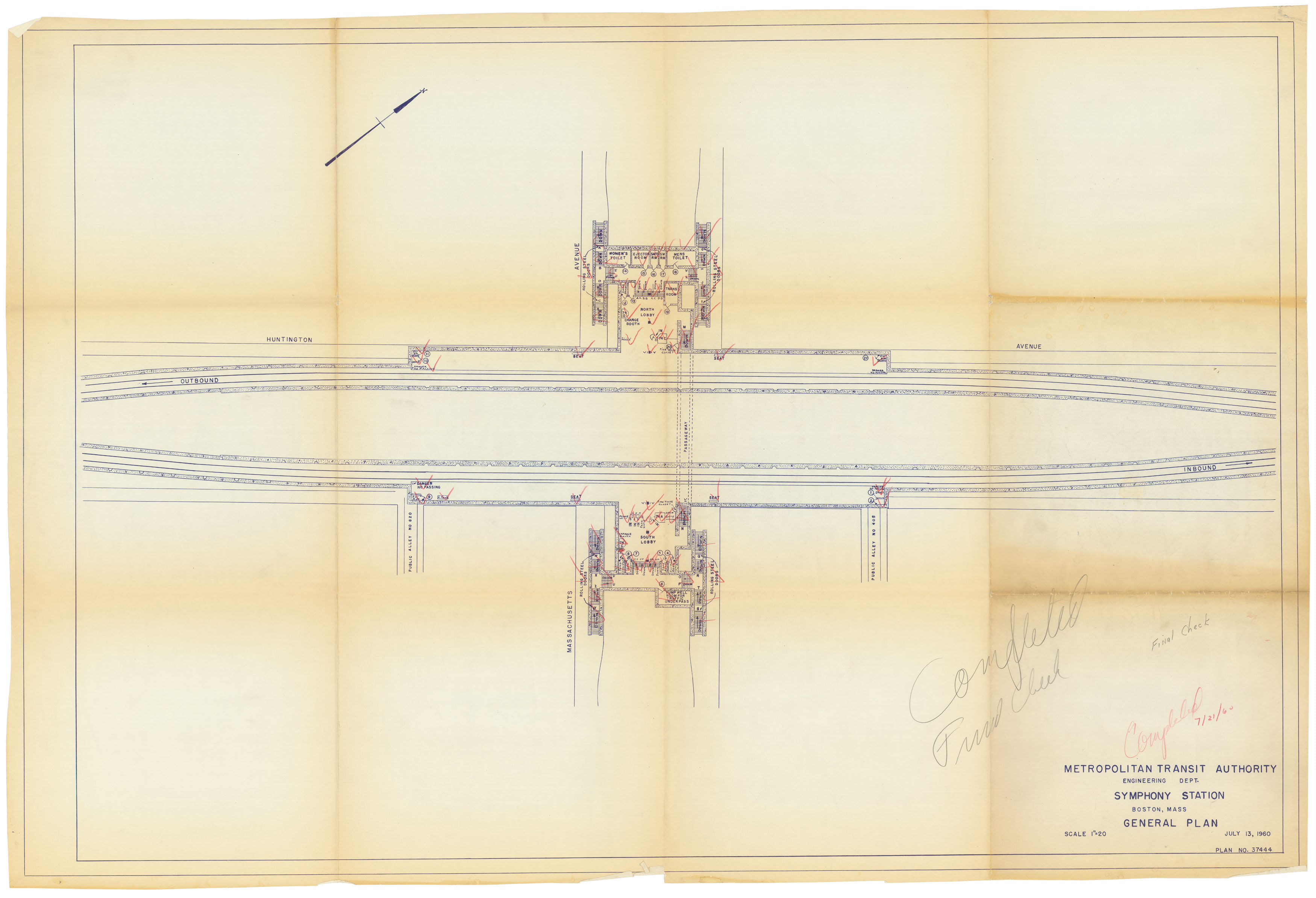 1960 plan of Symphony station